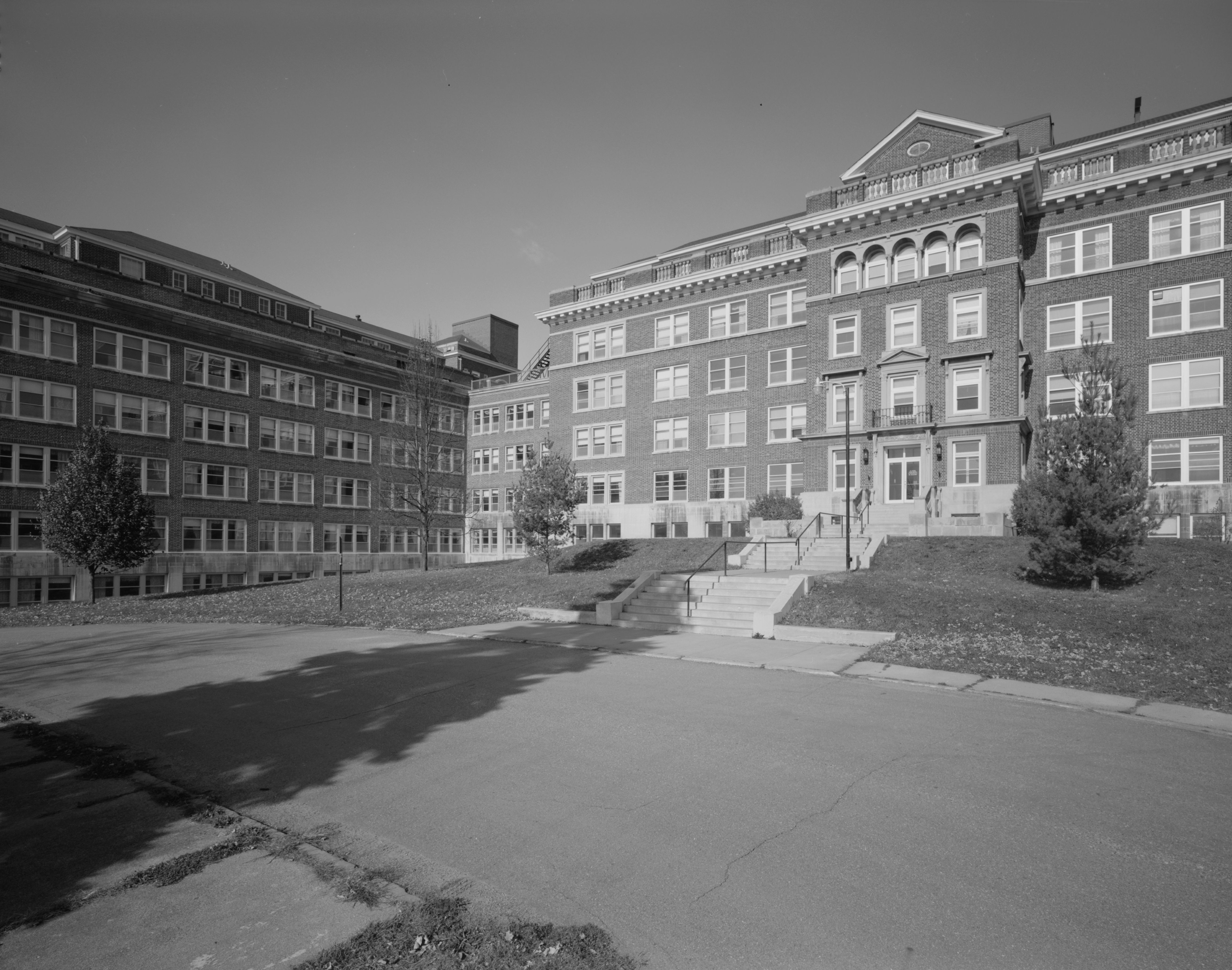 The administration building of the former Glen Lake Sanatorium in Minnetonka, Minnesota. Original description from HABS/HAER: Survey number HABS MN-133-J Part of building/structure is in Eden Prairie, Hennepin County, MN. Significance: This building opened in 1921 as the Infirmary Building, adding 100 beds. This doubled Glen Lake's capacity to 200. In 1924, with the construction of the east and west wings, it was converted into the Administration Building. It housed physicians' offices and patient rooms.